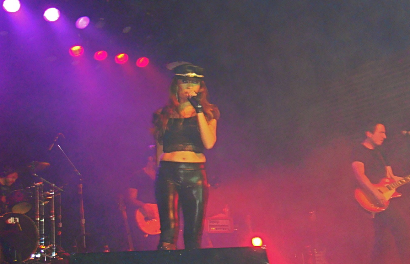 Zarah performing live in Hollywood, CA.